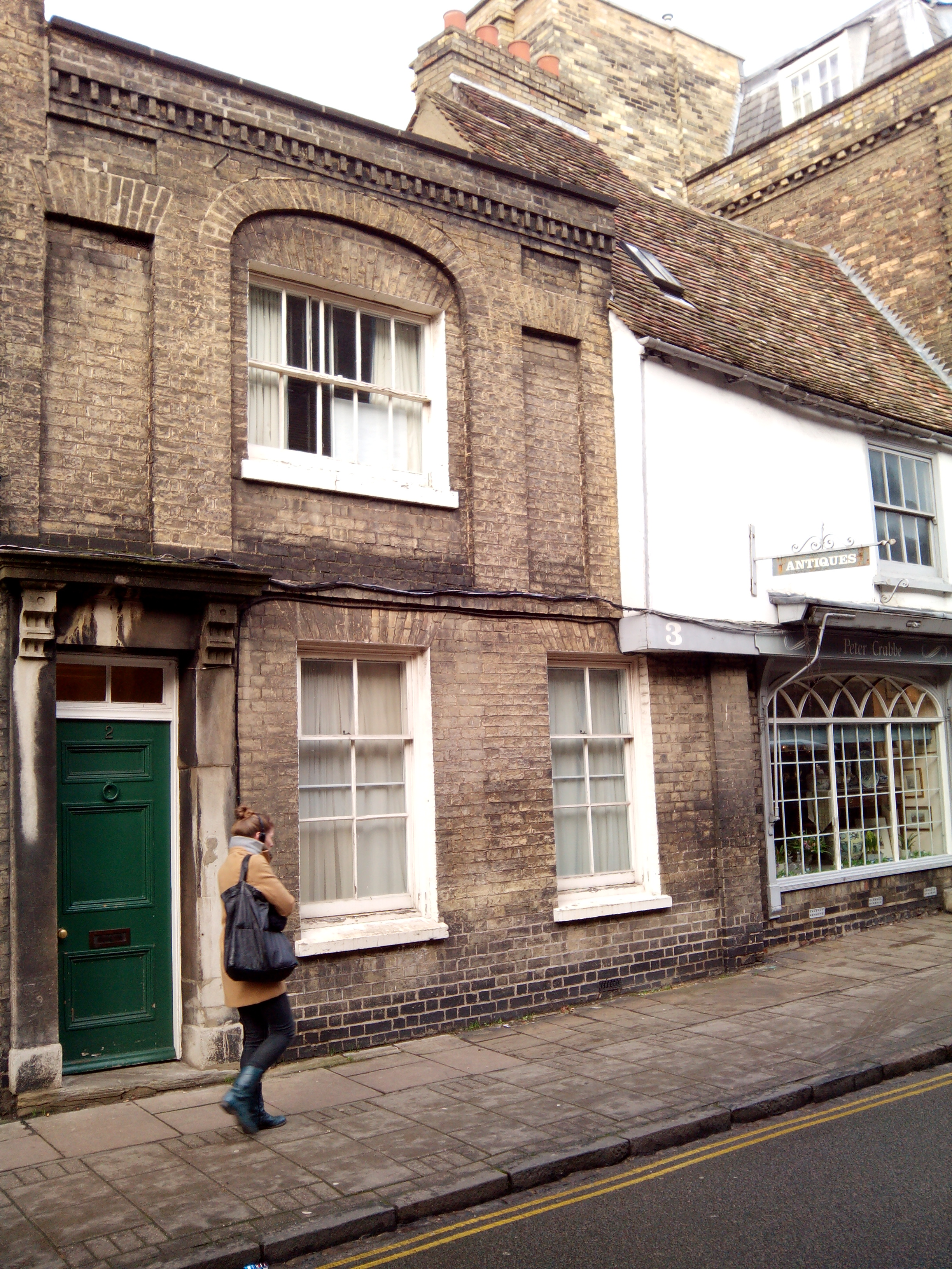 Downing Street toward Pembroke Stree.